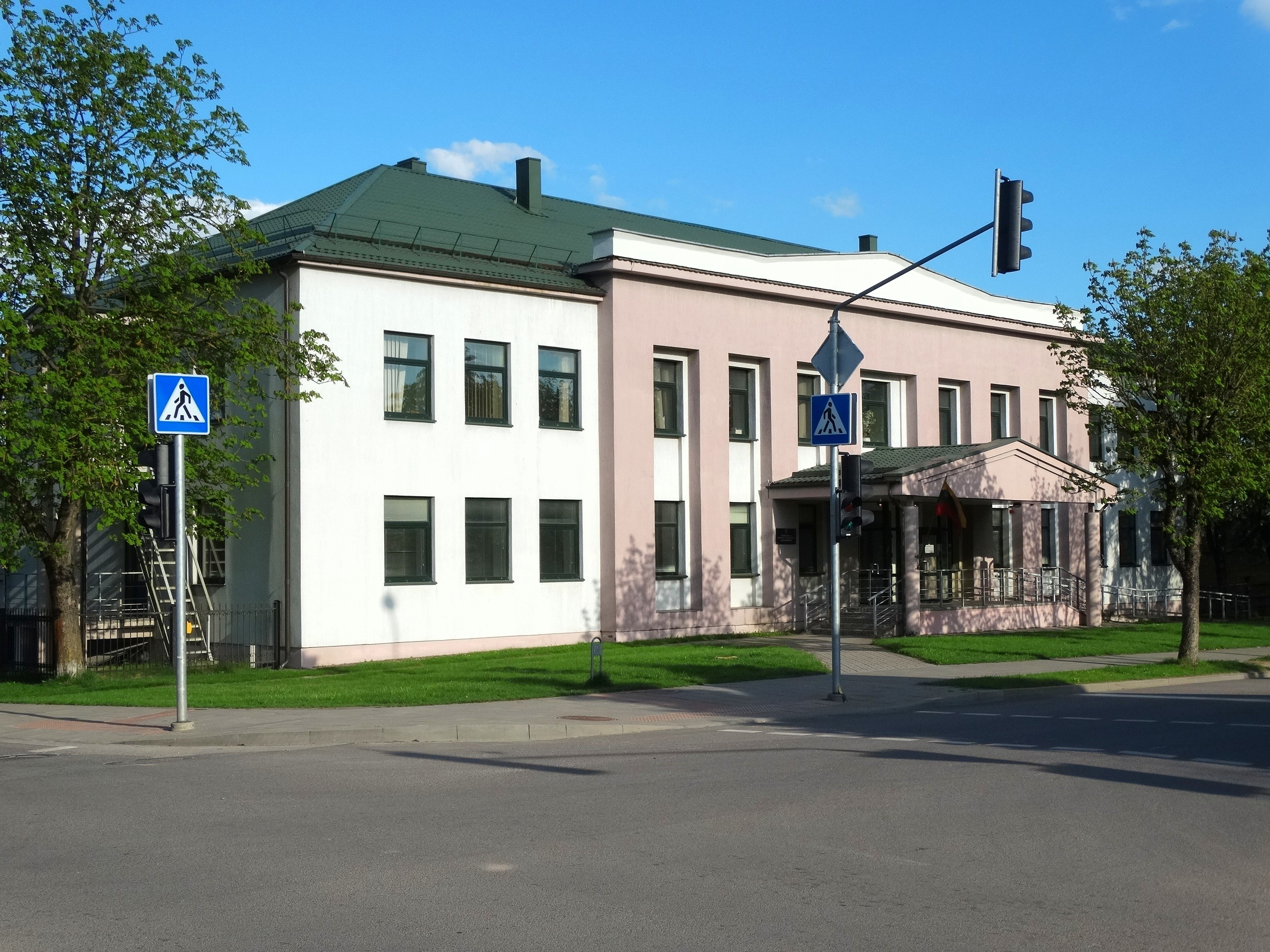 Court, Šalčininkai, Lithuania